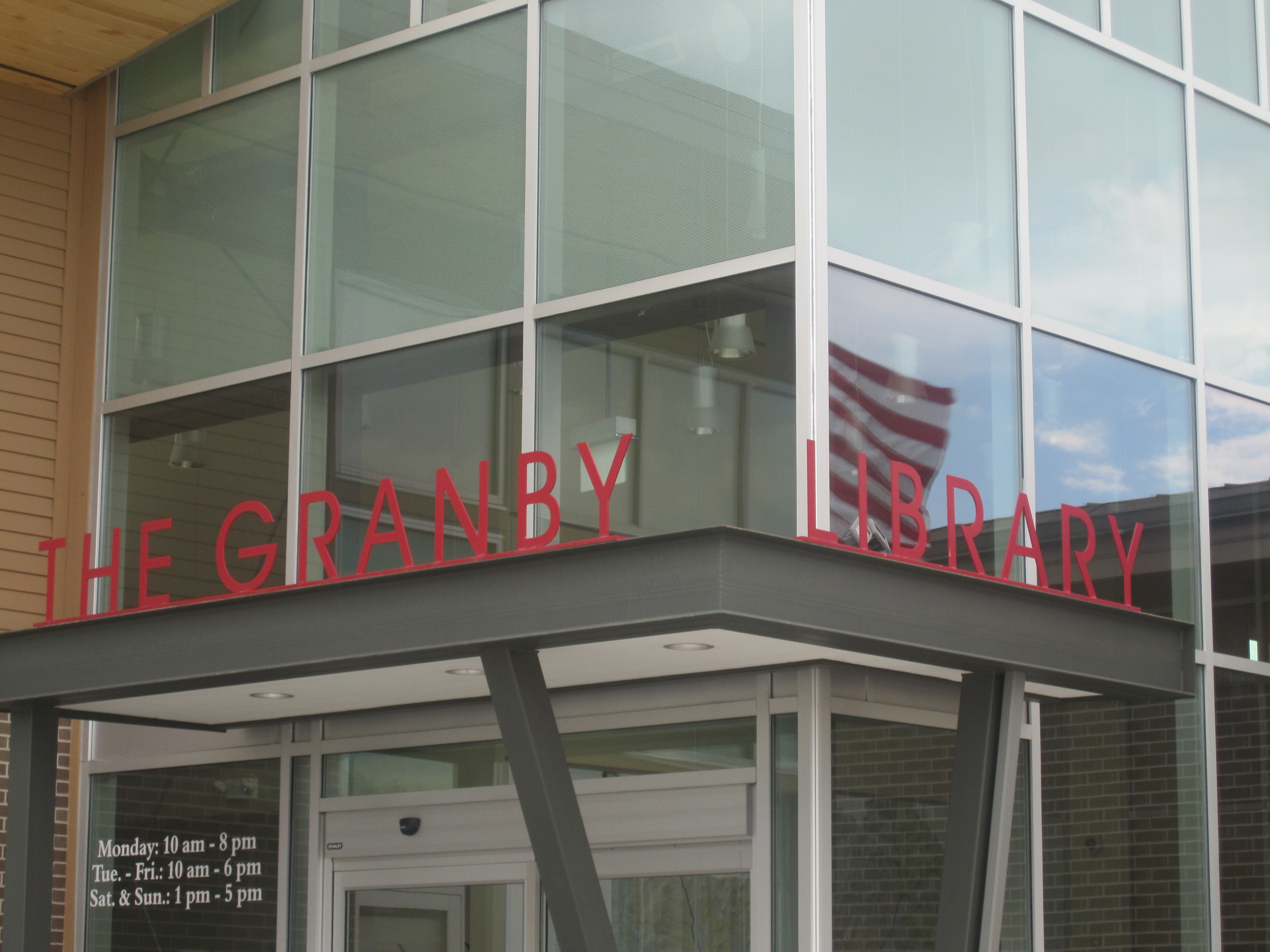 I took photo with Canon camera in Granby, CO.